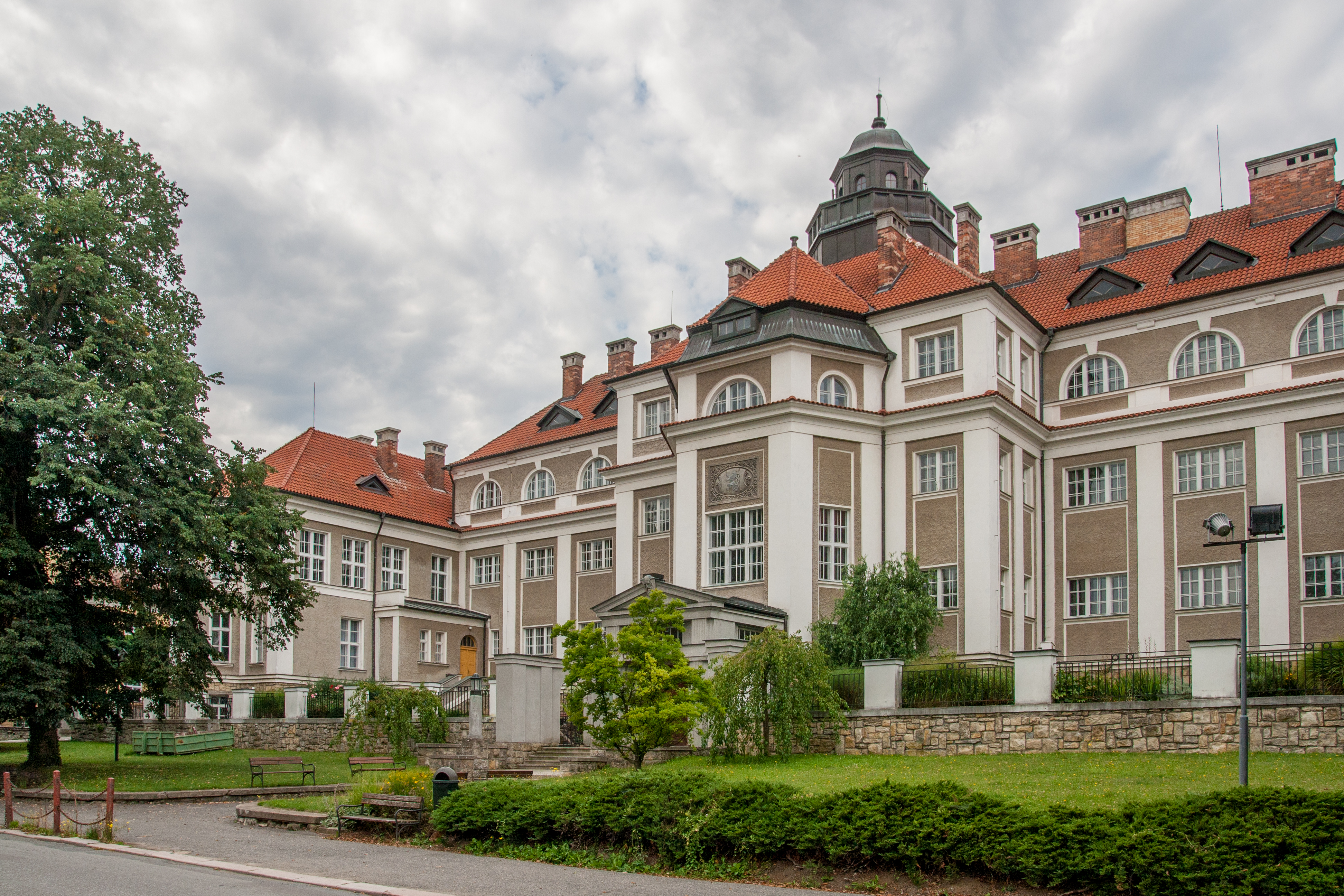 Alois Jirásek gymnasium (school) in Litomyšl, Svitavy District, Pardubice Region, Czechia